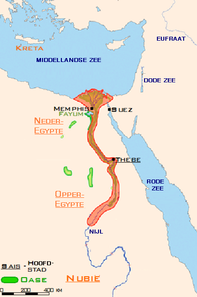 Map of Egypt (Middle Kingdom)